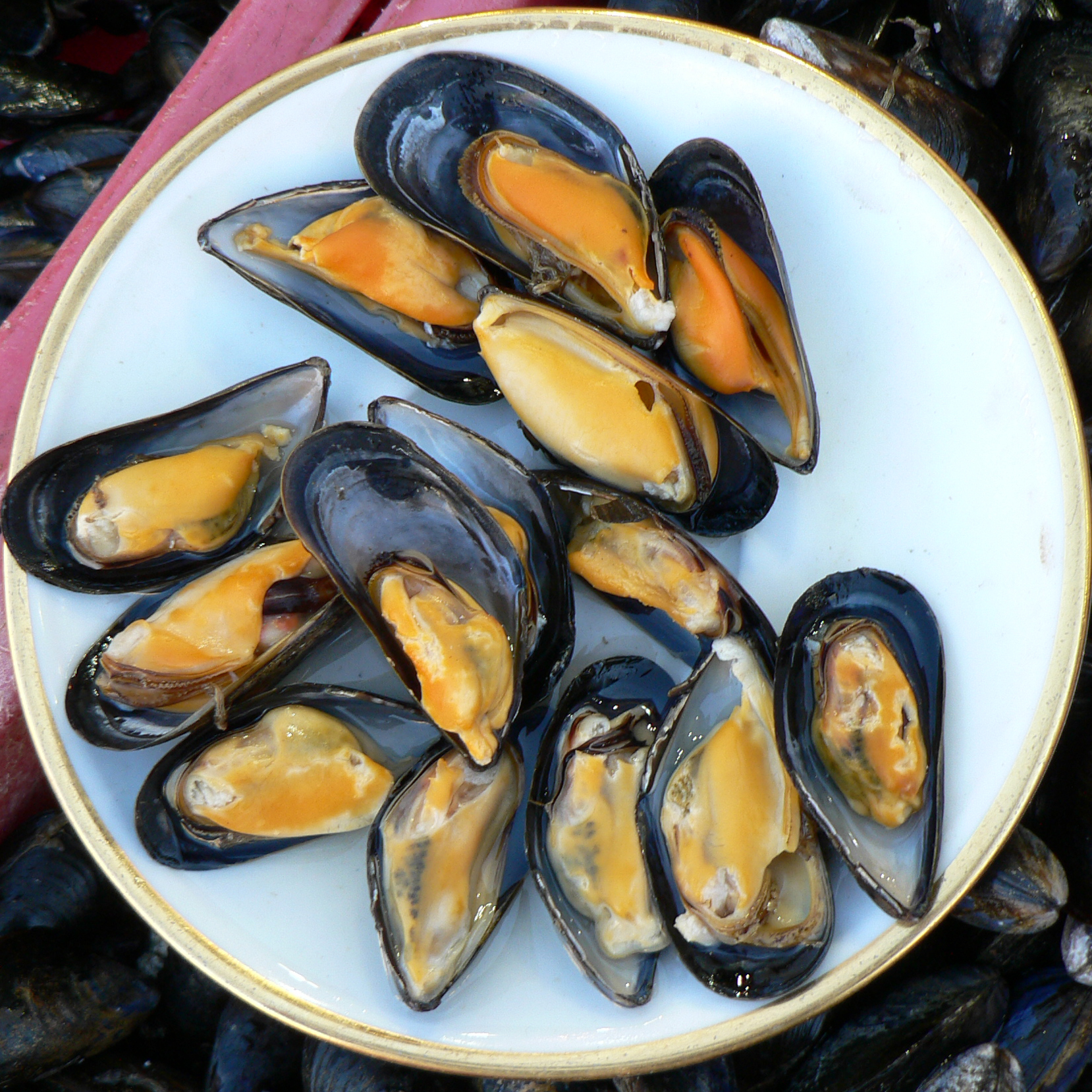 Mussels at Trouville fish marketMussels at Trouville fish market